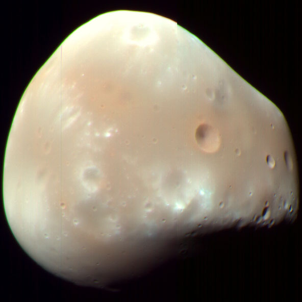 Color-enhanced image of Deimos, a moon of Mars, captured by the HiRISE instrument on the Mars Reconnaissance Orbiter on 21 Feb 2009. Cropped from source image.